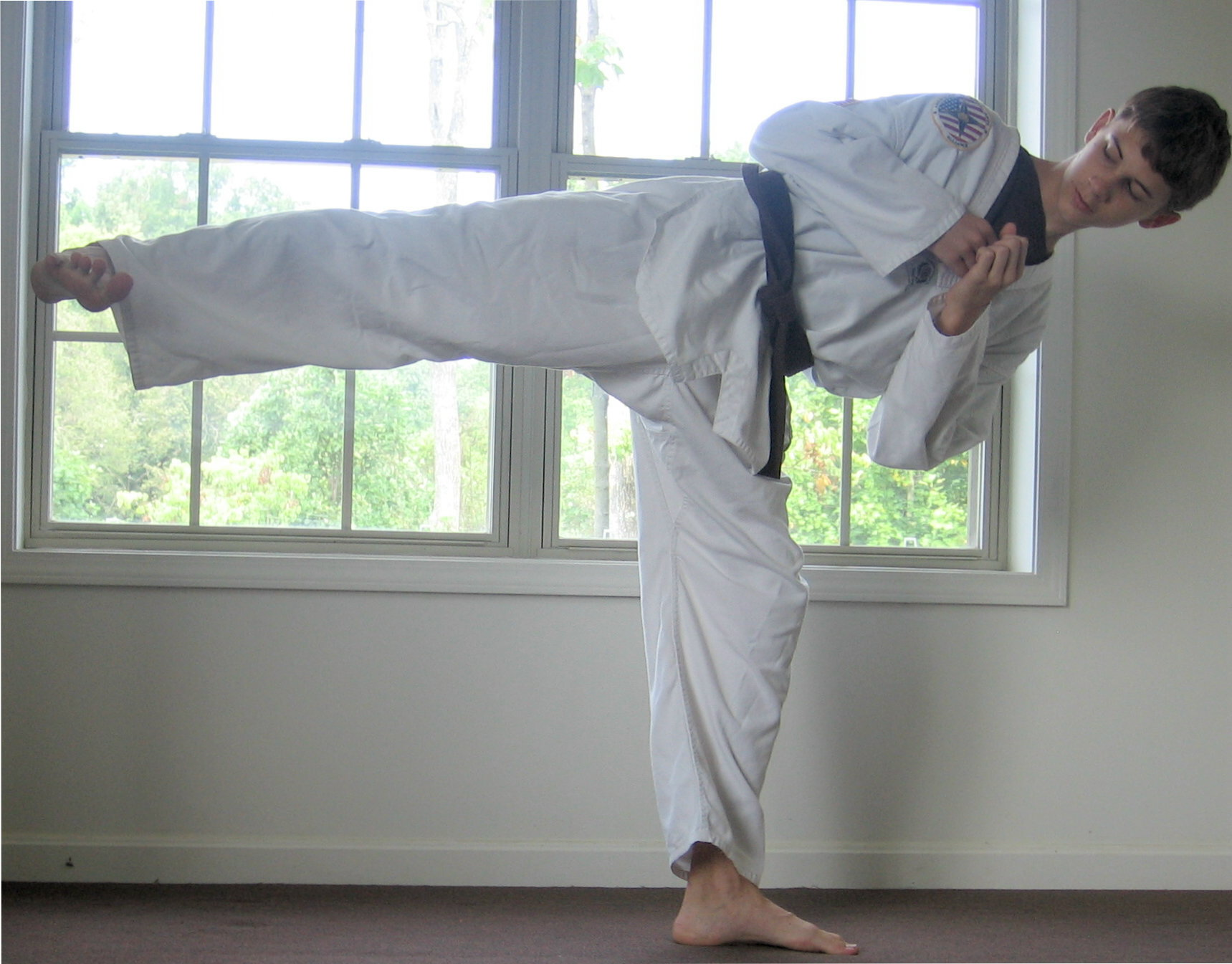 Taekwondo practitioner executing a side kick.